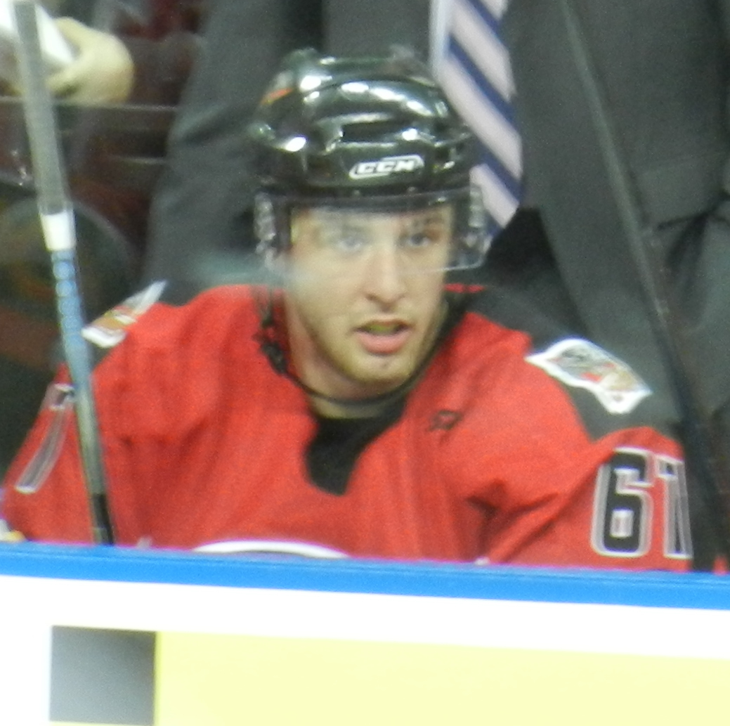 Daniel Koger playing for the Cincinnati Cyclones